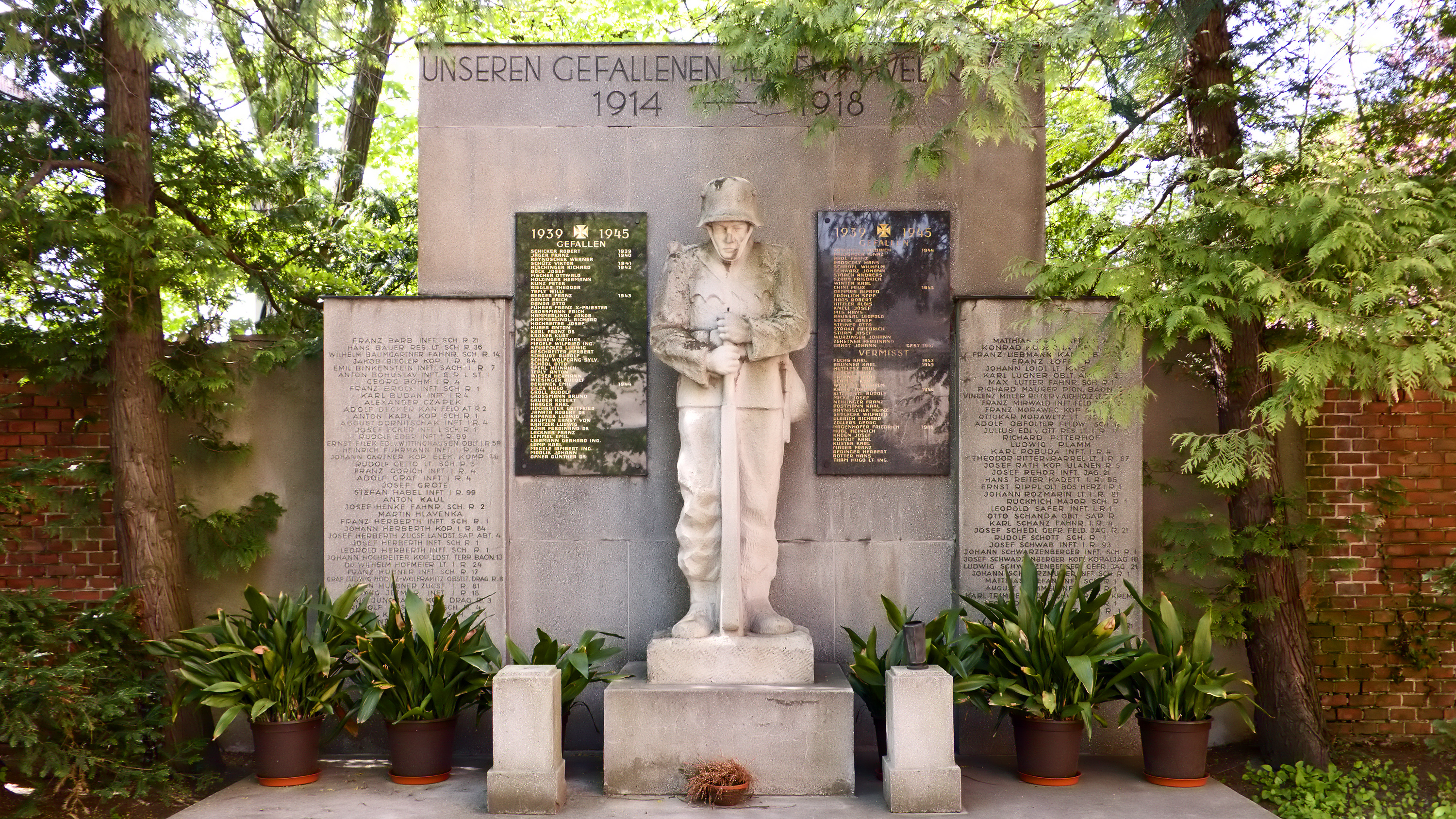 Church Hütteldorfer Pfarrkirche in Vienna Penzing